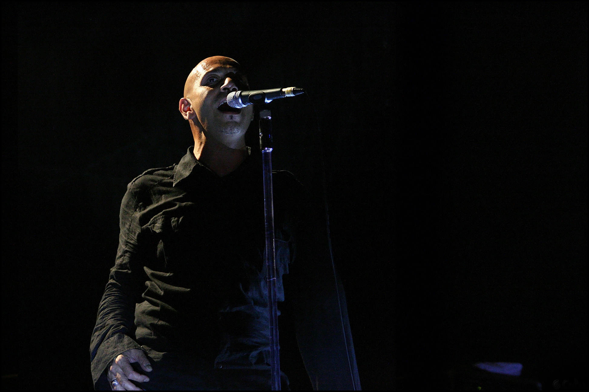 Frédéric Franchitti from Astonvilla - Live in Beaune 06/02/07